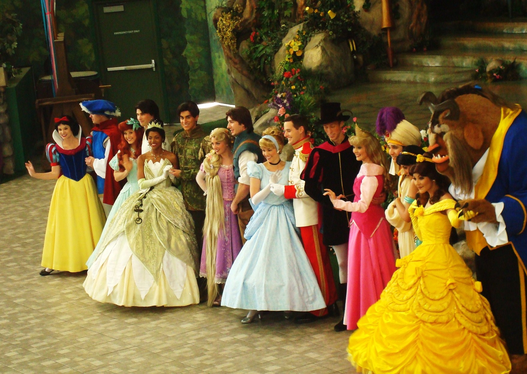 Snow White, The Prince, Ariel, Prince Eric, Tiana, Prince Navene, Rapunzel, Flynn Rider, Cinderella, Prince Charming, Prince Phillip, Aurora (Sleeping Beauty), Aladdin, Jasmine, Belle, the Beast (before returning to form as Prince Adam).